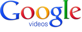 Logo of Google Videos